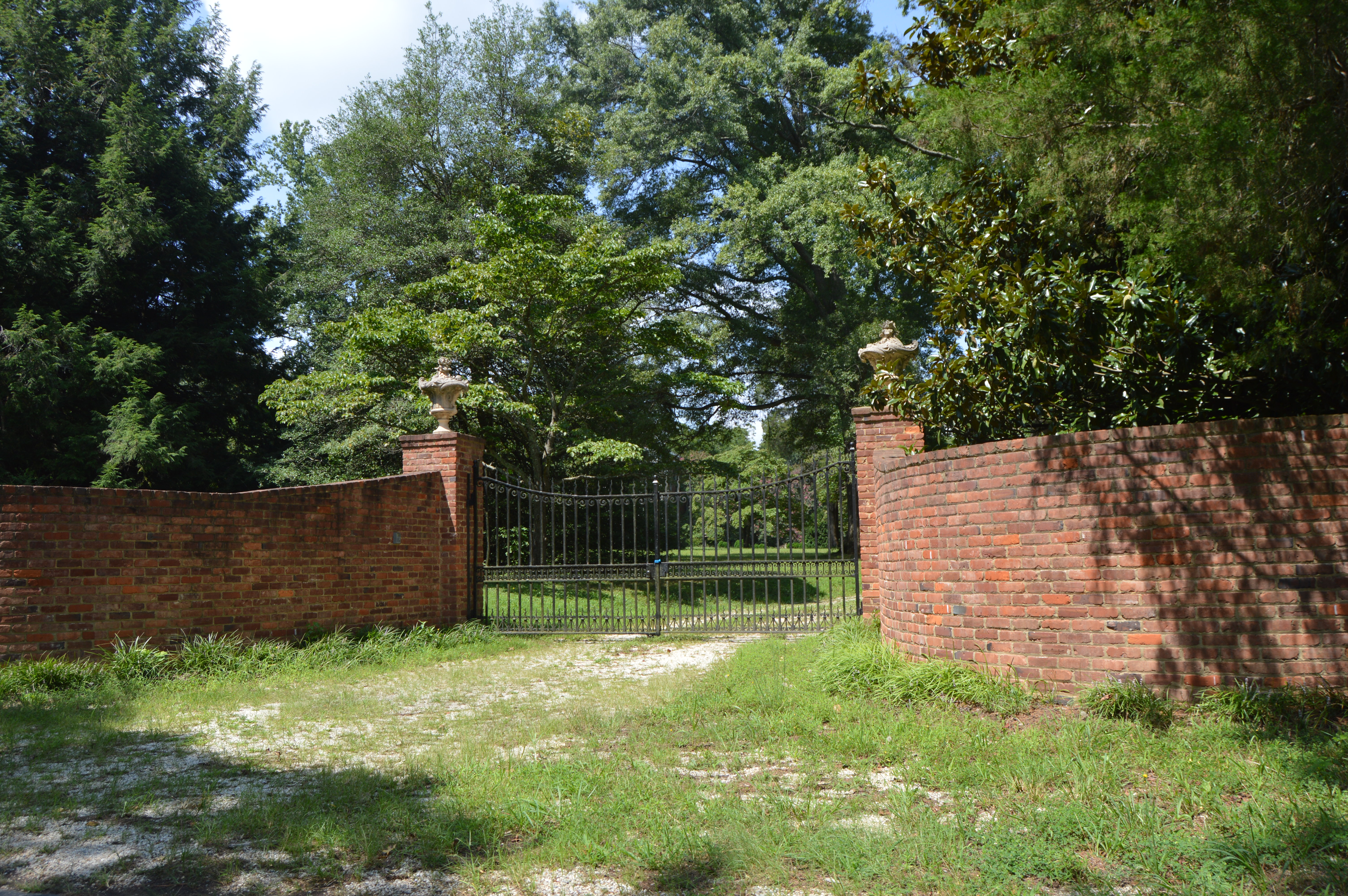 Entrance to the Clover Lea property, located along Piping Tree Road east of Old Church in Hanover County, Virginia, United States. The property is listed on the National Register of Historic Places.